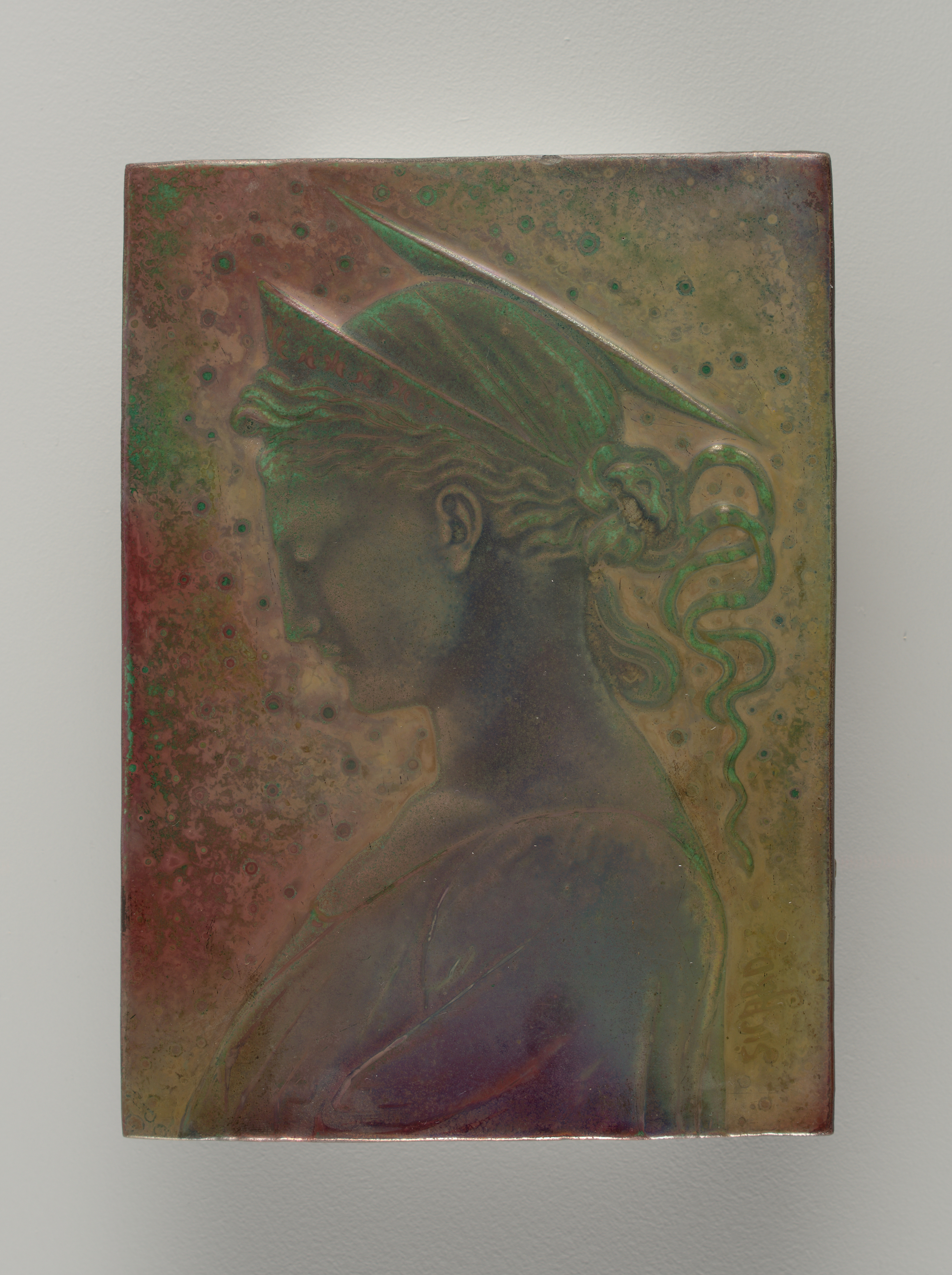 Molded red earthenware body modeled in low relief with a Pre-Raphaelitesque left profile of a woman wearing a coronet and having slightly trailing hair. Halo-like image above her head. Decoration of metallic lustres on an iridescent ground, predominately in shades of purple and green.